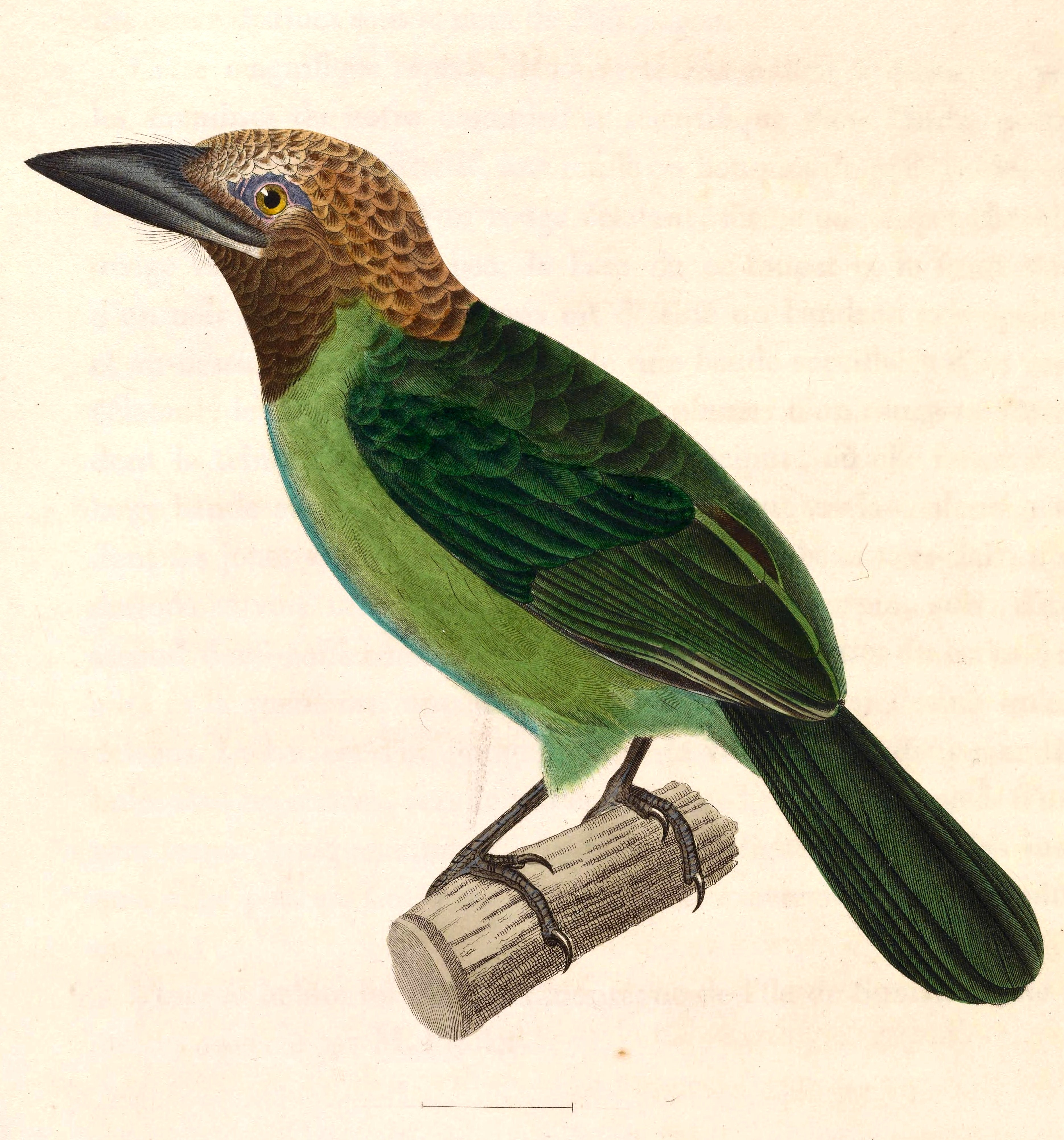 « Bucco corvinus » = Megalaima corvina (Brown-throated Barbet) - adult